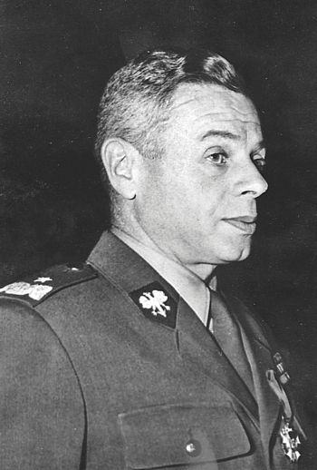 Wacław Komar (born Mendel Kossoj) , Jewish Polish Communist and General